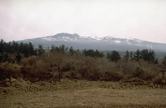 The massive Hallasan shield volcano, seen here from the south, forms much of the 40 x 80 km Cheju Island, which lies 90 km south of the Korean Peninsula.